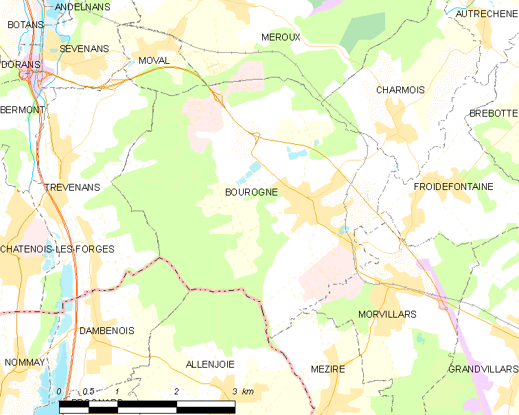 Map of French municipality Bourogne